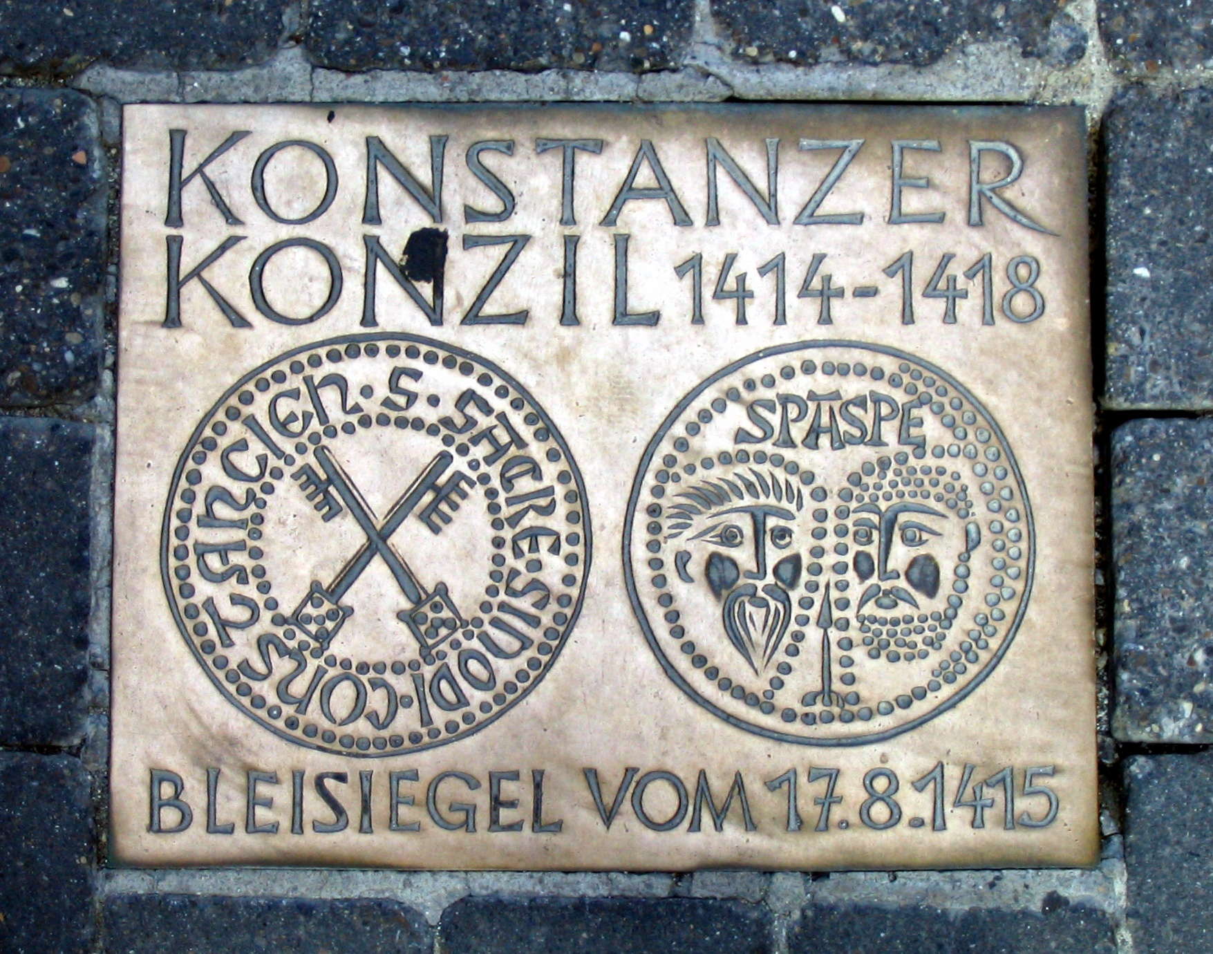 the right plaque inscribes " SPASPE" meaning "Sanctus PAulus ac (and) Sanctus PEtrus"Wikipedia:Auskunft/Archiv/2006/Nov